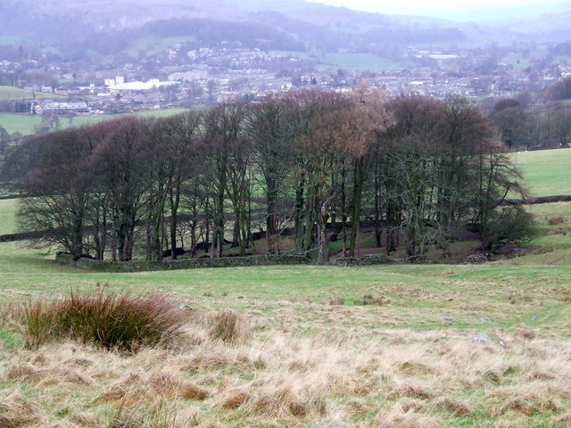 Pond Plantation Pond Plantation is a small area of deciduous woodland between Cleatop Wood and Lodge Farm. Above & beyond the trees is Settle.